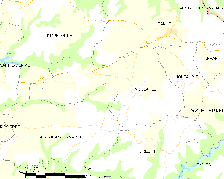 Map of French municipality Moularès